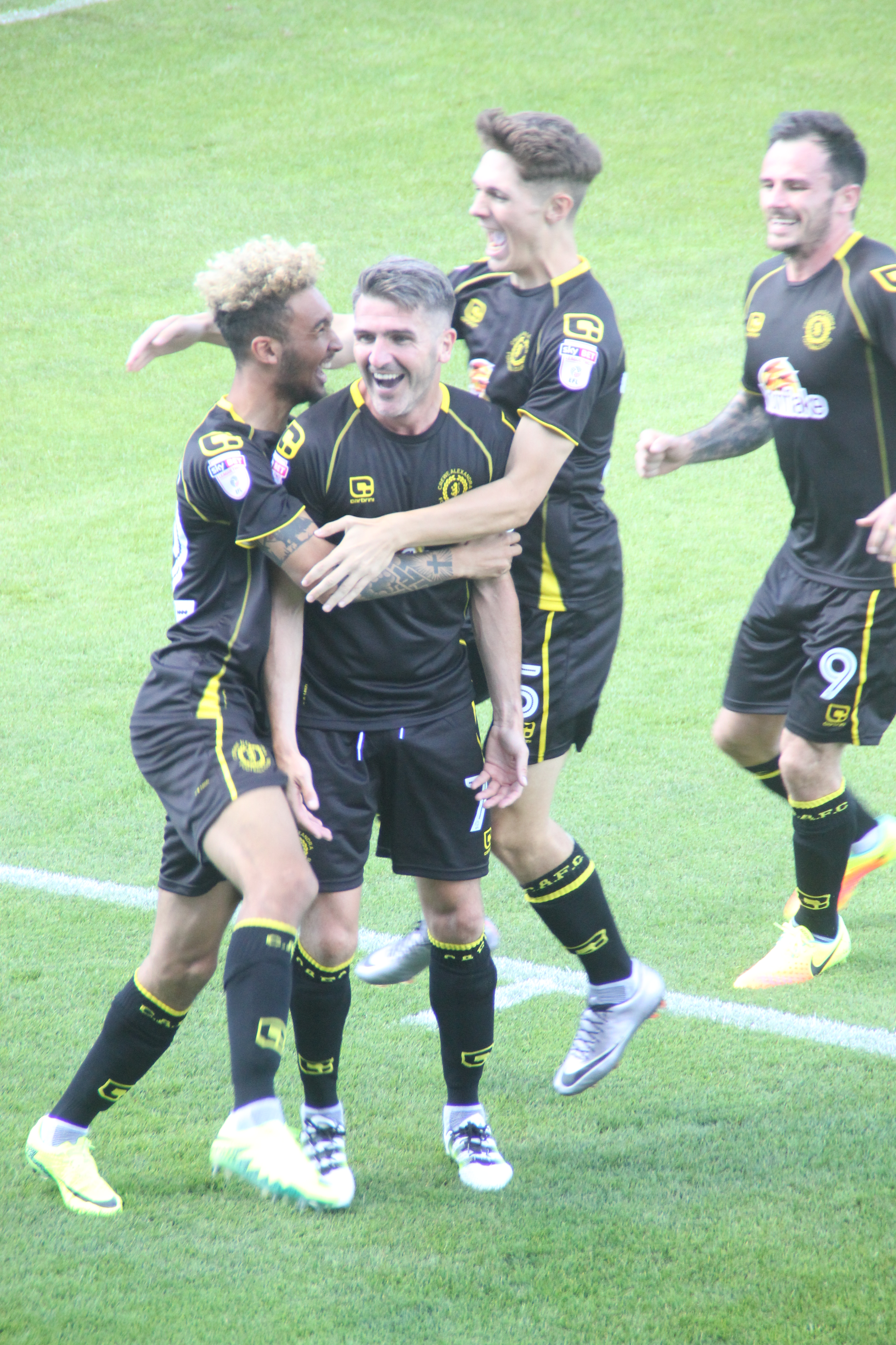 Ryan Lowe is congratulated by team-mates after scoring the opening goal for Crewe Alexandra in a 2-1 win at Stevenage.